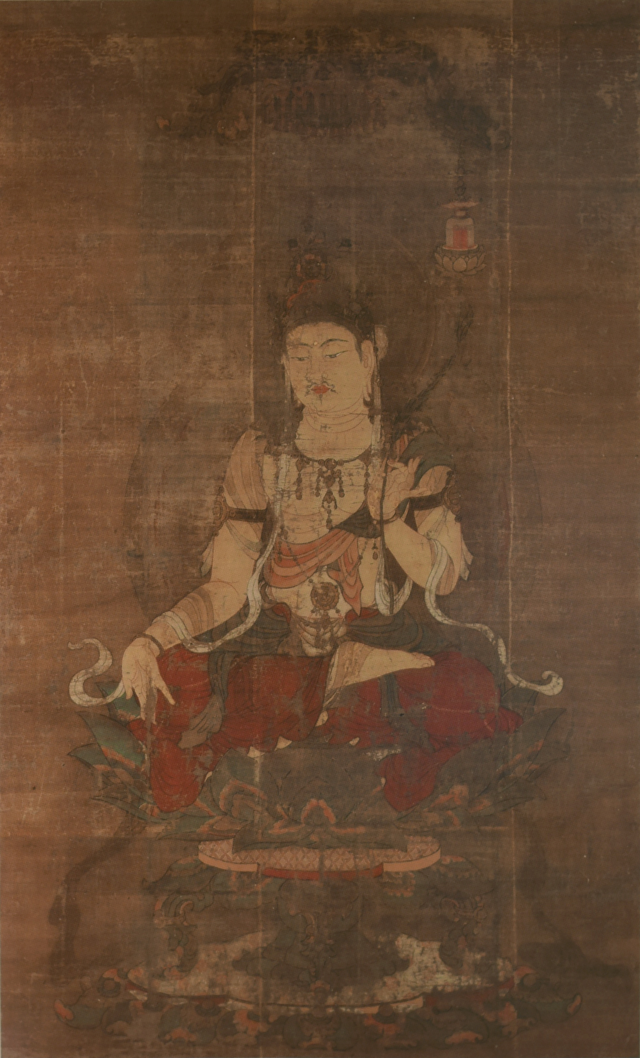 Miroku Bosatsu, Hozanji, Ikoma, Nara, Japan